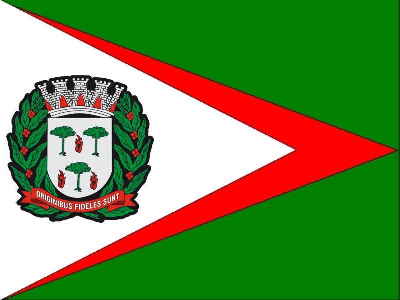 Flag of the city of Espírito Santo do Pinhal